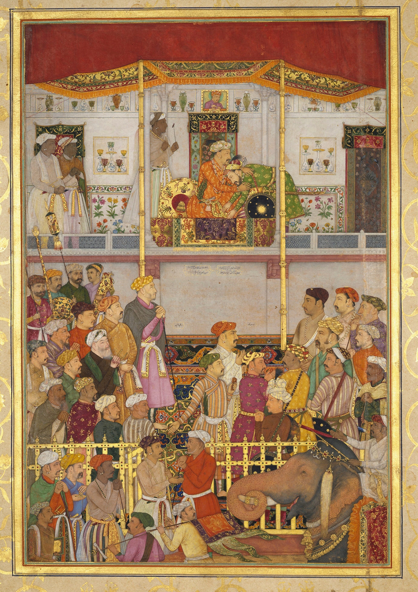 Balchand. Jahangir Receives Prince Khurram at Ajmer on His Return from the Mewar Campaign ca 1635 The Royal Library, Windsor Castle